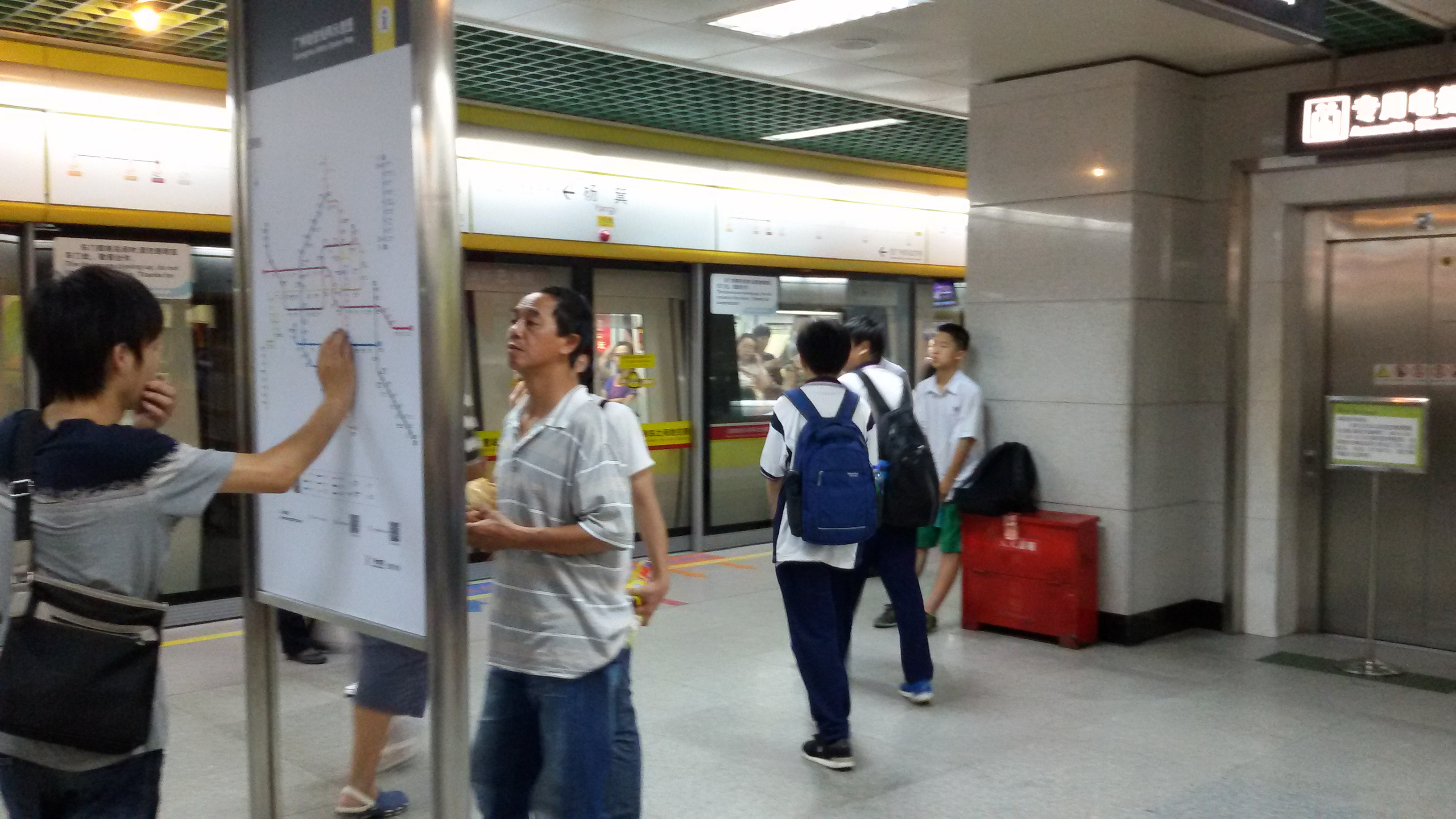 PLATFORM at Line 1 on Yangji Station in Guangzhou Metro.